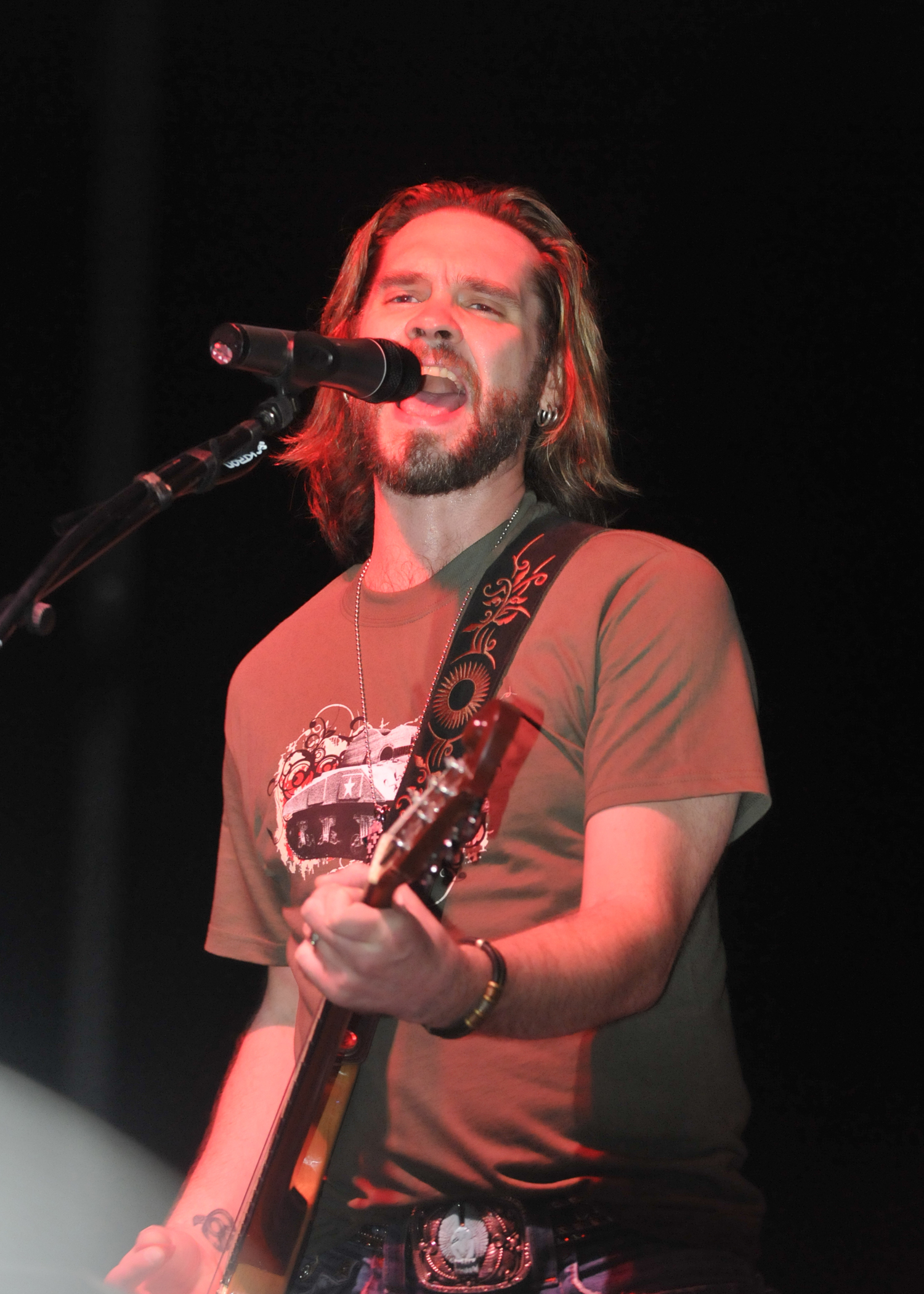 Former "American Idol" contestant Bo Bice performs for service members assigned to Joint Task Force Guantanamo and Naval Station Guantanamo at the Tiki Bar on New Years Eve, Dec. 31, 2010. The concert was sponsored by Navy Entertainment and staged by the base Morale, Welfare and Recreation office. JTF Guantanamo provides safe, humane, legal and transparent care and custody of detainees, including those convicted by military commission and those ordered released by a court. The JTF conducts intelligence collection, analysis and dissemination for the protection of detainees and personnel working in JTF Guantanamo facilities and in support of the War on Terror. JTF Guantanamo provides support to the Office of Military Commissions, to law enforcement and to war crimes investigations. The JTF conducts planning for and, on order, responds to Caribbean mass migration operations.